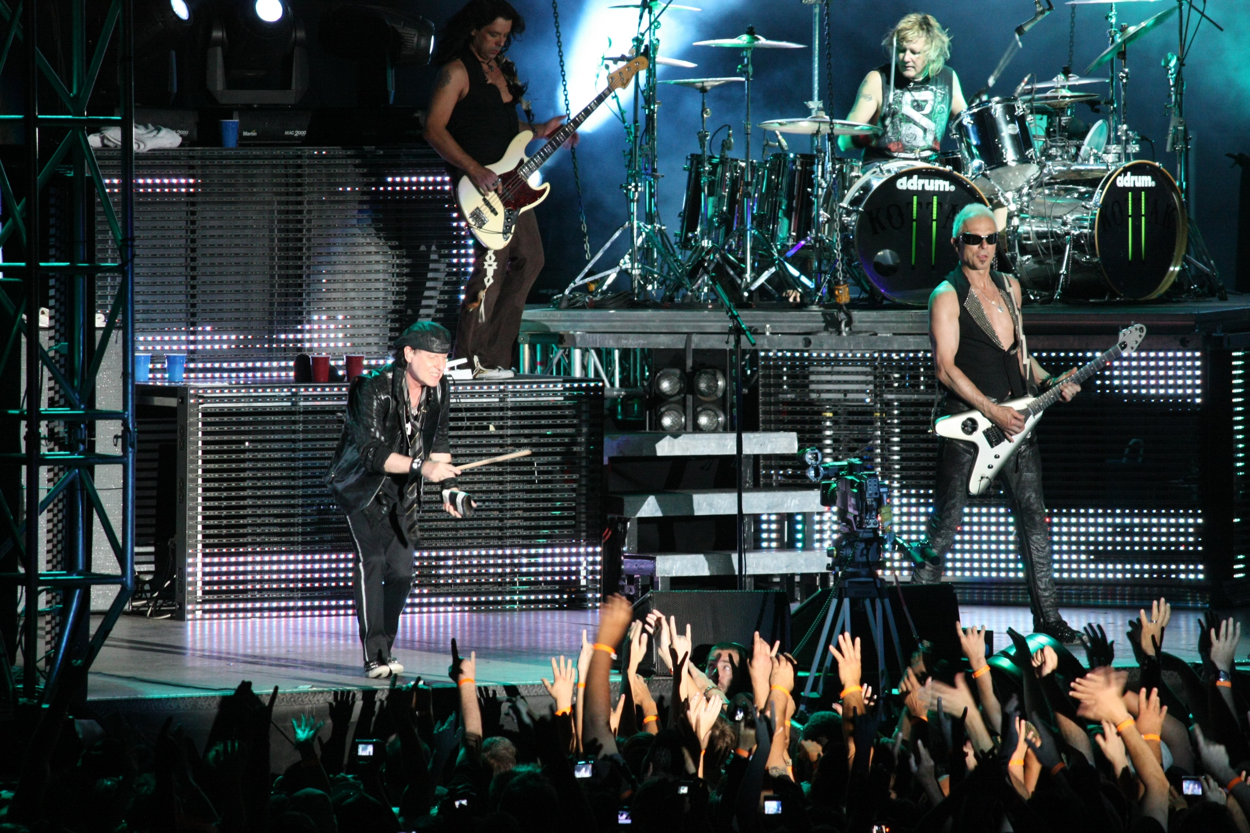 Scorpions in USA 2010